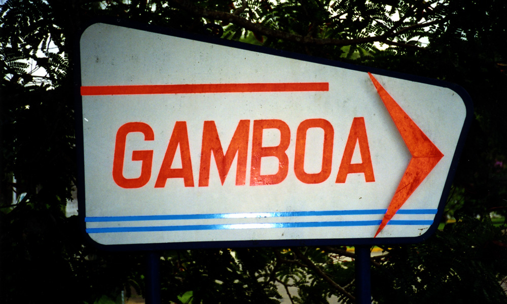 This sign, typical of all Canal Zone townsites, marks the entrance to the town of Gamboa. It's located on the Gaillard Highway, right after the bridge into town.